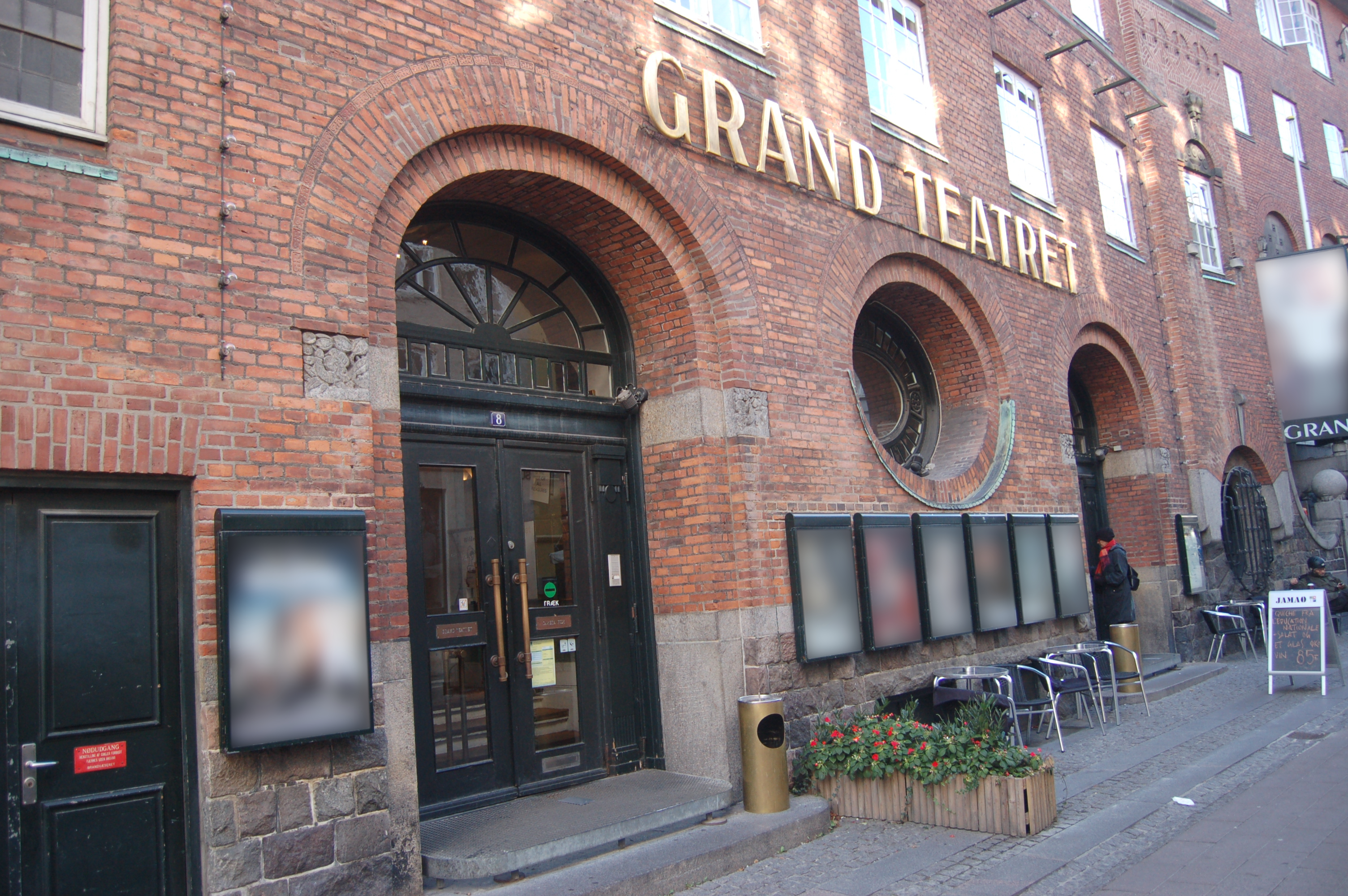 Grand Teatretm a cinema in Copenhagen, Denmark